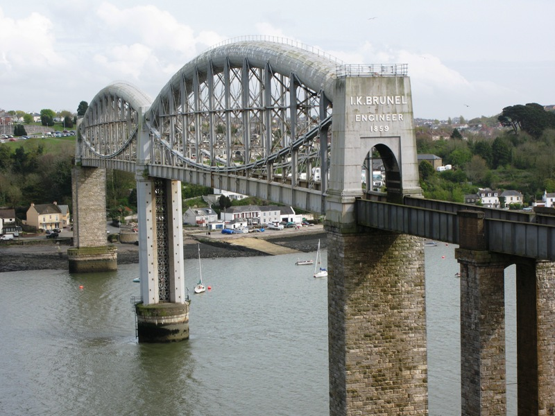 The Royal Albert Bridge which carries the Cornish Main Line across the River Tamar at Saltash, Cornwall, United Kingdom. Taken in 2009, 150 years after its construction by Isambard Kingdom Brunel.